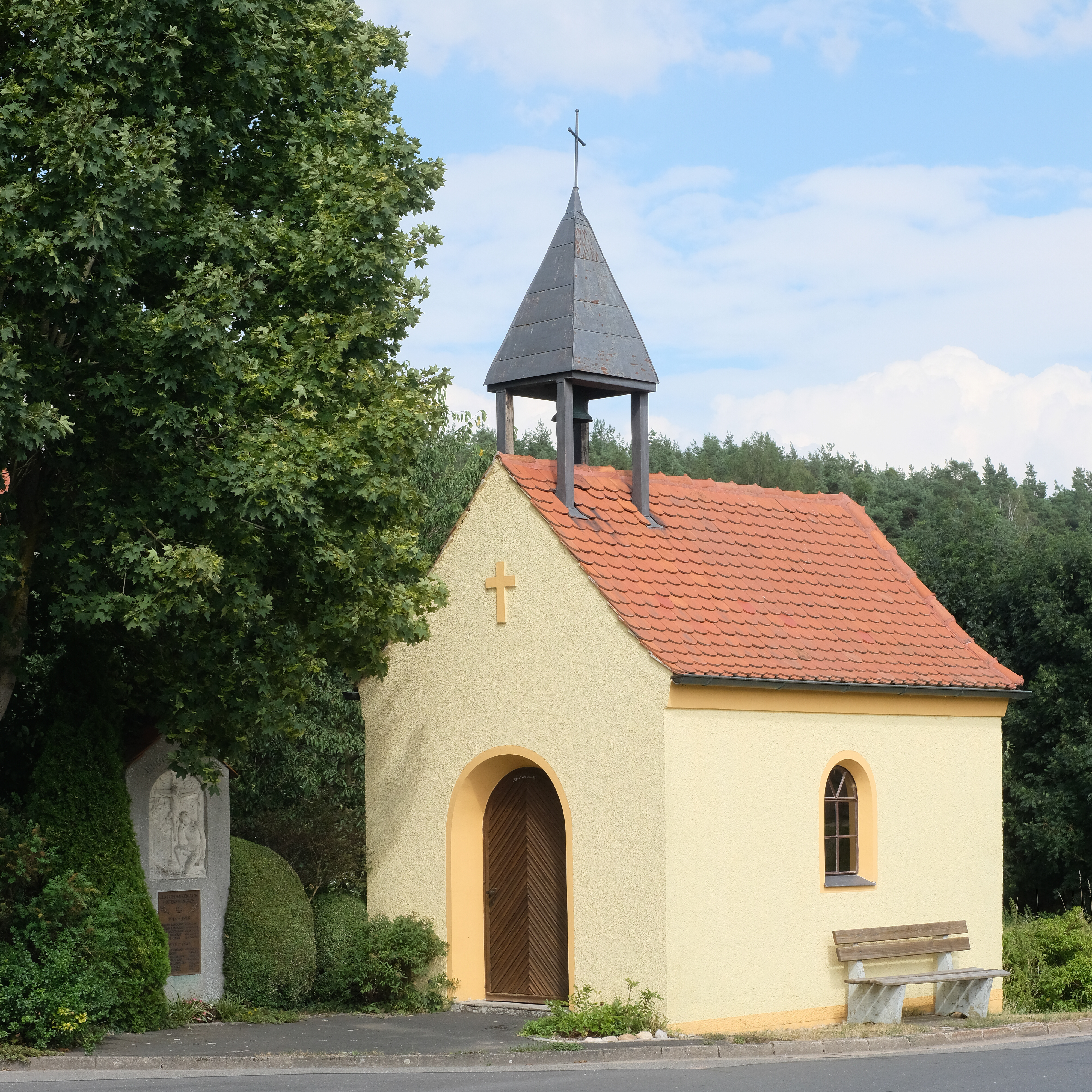 Chapel Untersteinbach, Hirschau-Untersteinbach, district Amberg-Sulzbach, Bavaria, Germany